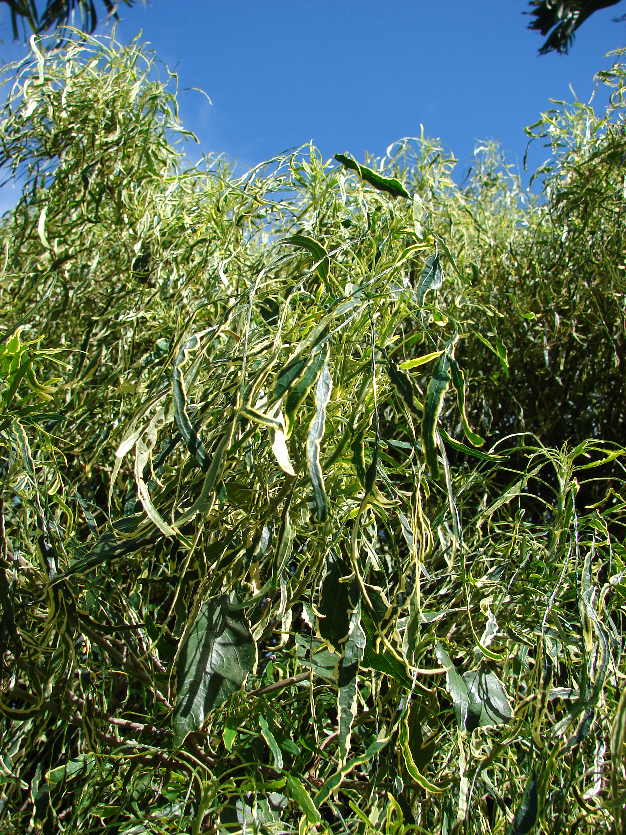 Polyscias filicifolia (variegated cultivar leaves). Location: Maui, Kokomo Rd Haiku